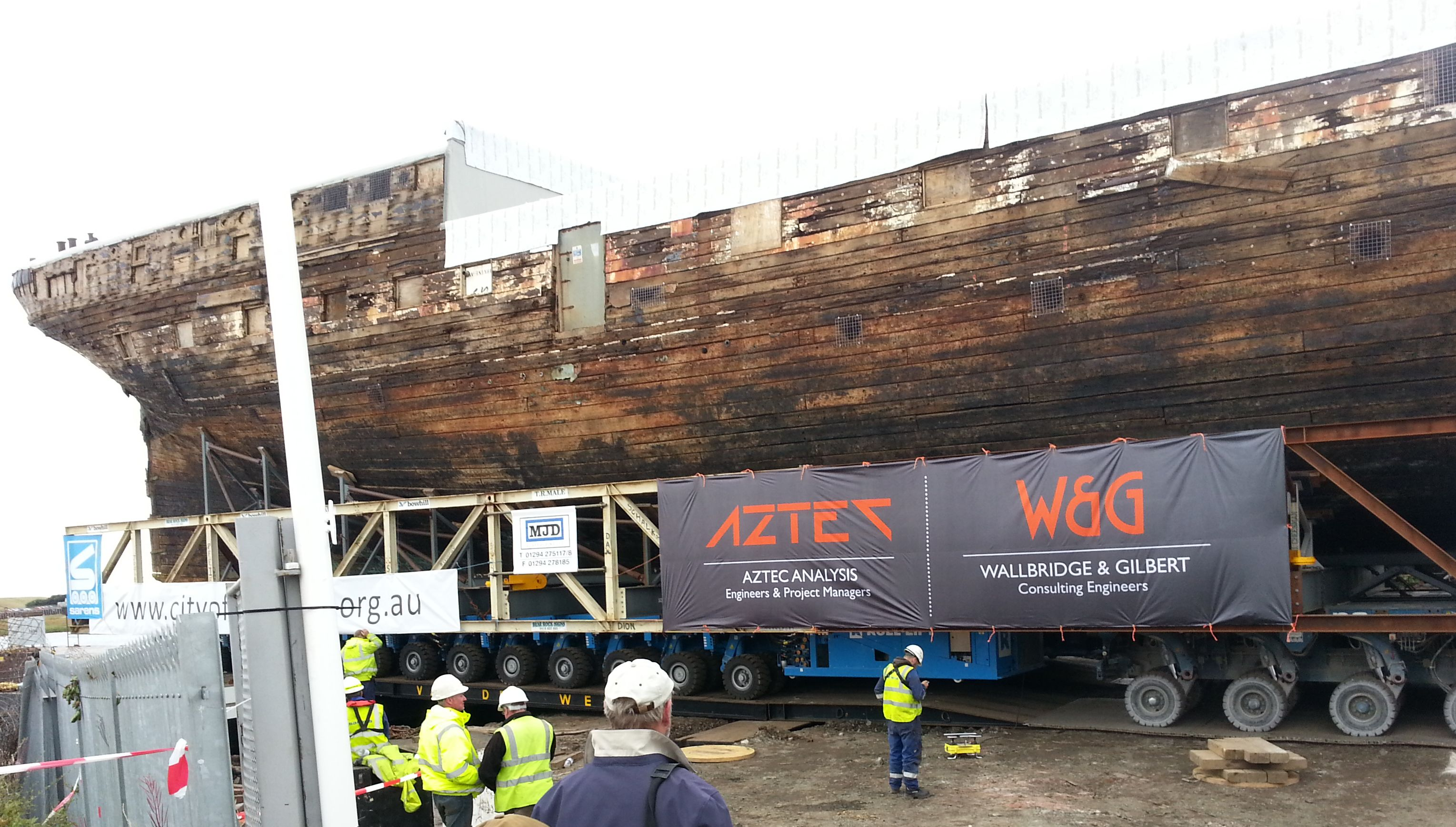 The clipper ship City of Adelaide is being moved onto a barge after over 20 years on land. Almost 400 wheels needed on trailers.